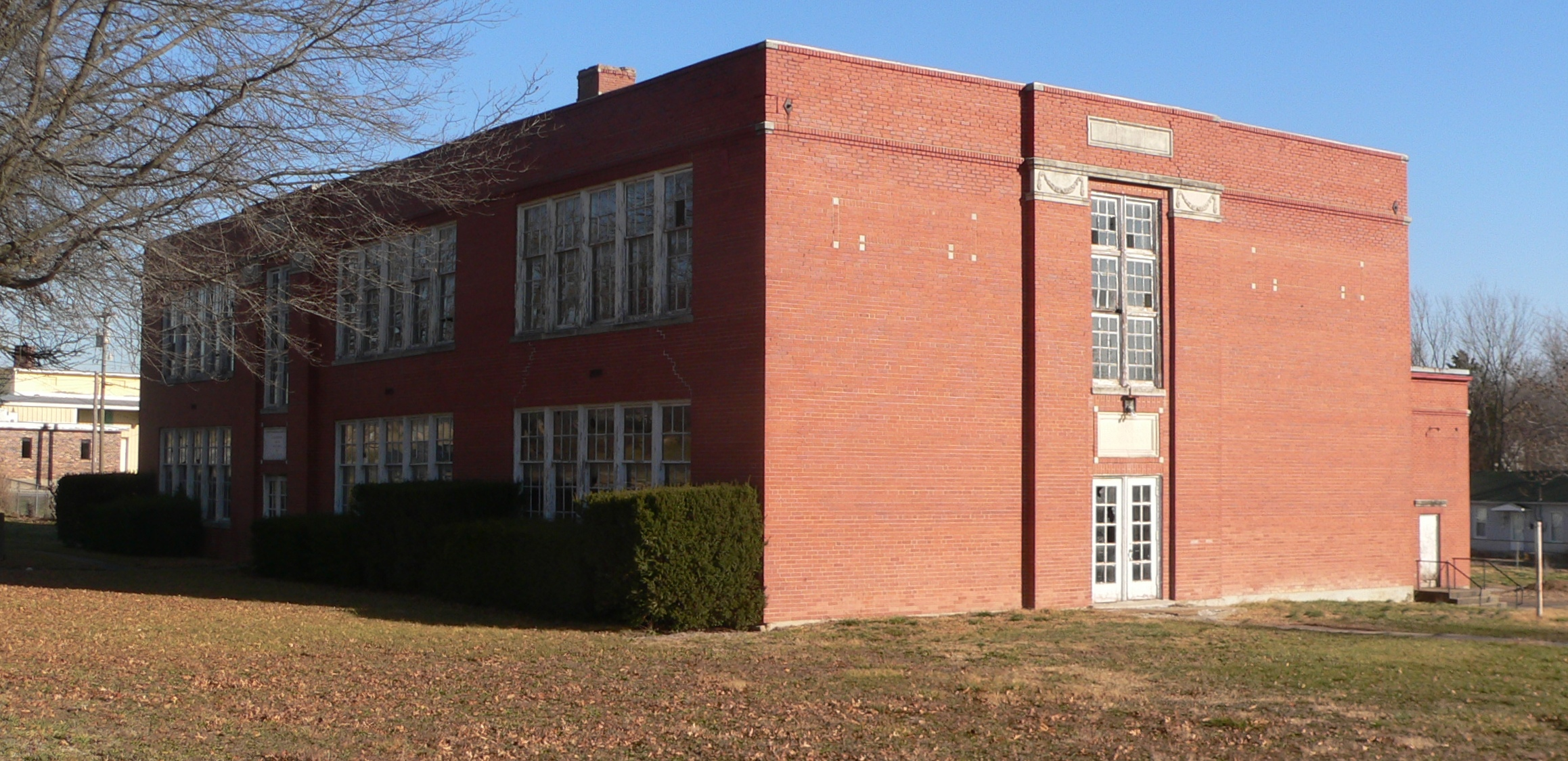 George Washington Carver School, located on east side of Westminister Avenue between Carver and 9th Streets in Fulton, Missouri; seen from the southwest. The building faces west, toward Westminister Ave.